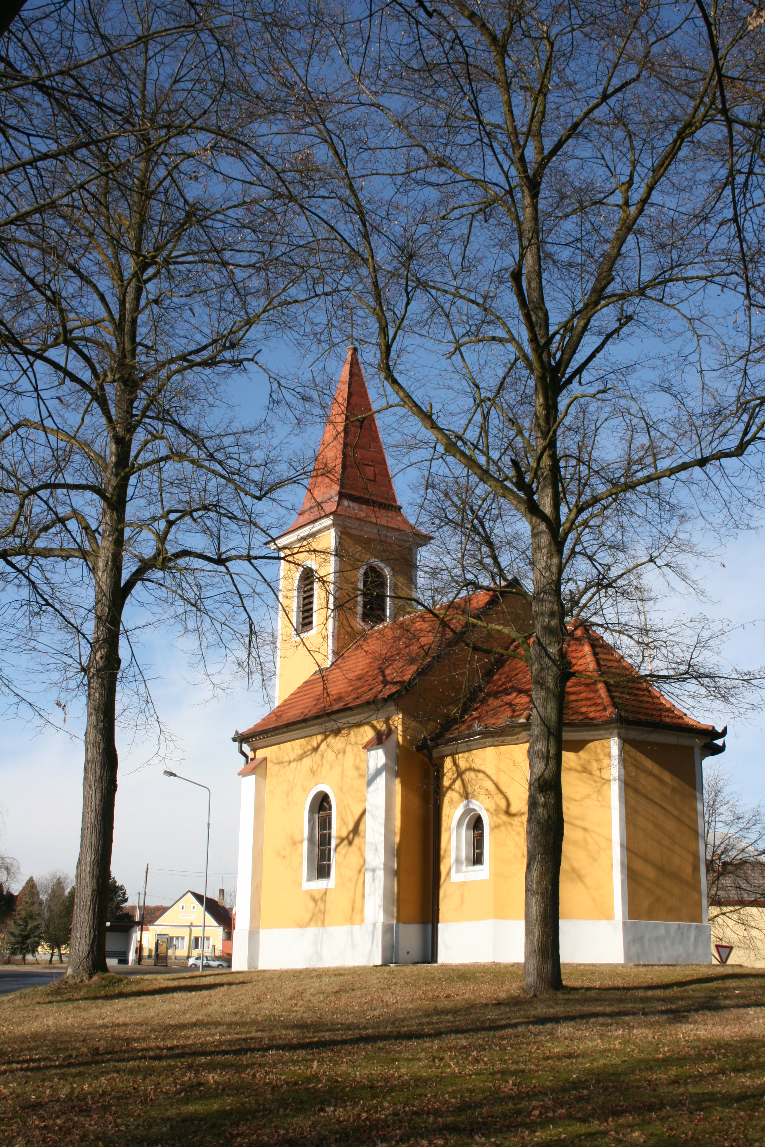 Sviny Village near to Veselí nad Lužnicí, Tábor District, Czech Republic. Chapel from the 19th century